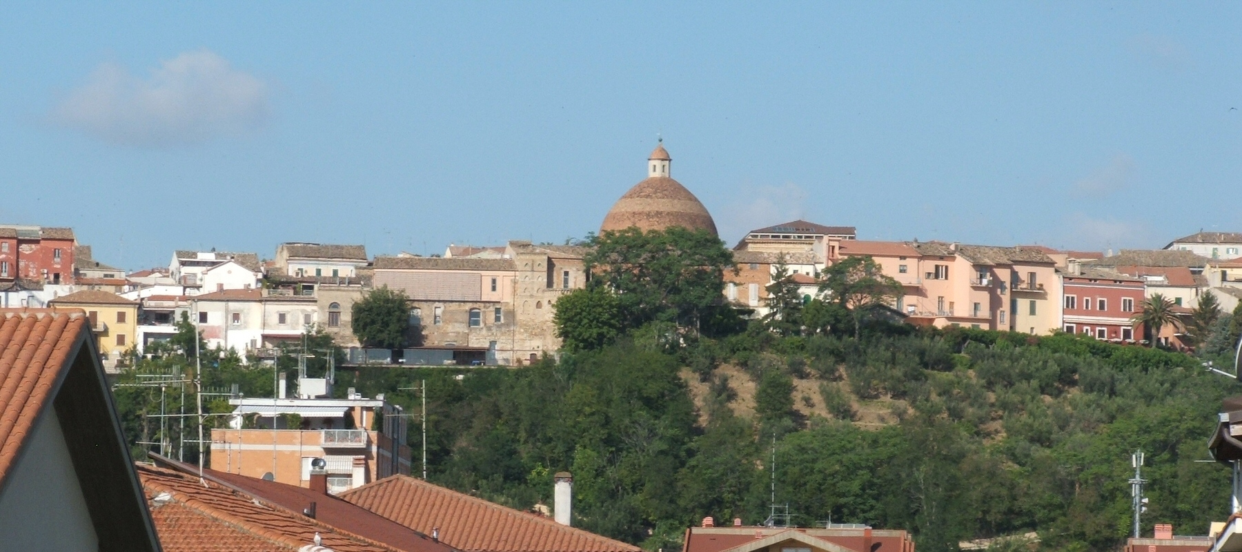 Giulianova (TE), Italy - View from Giulianova Lido